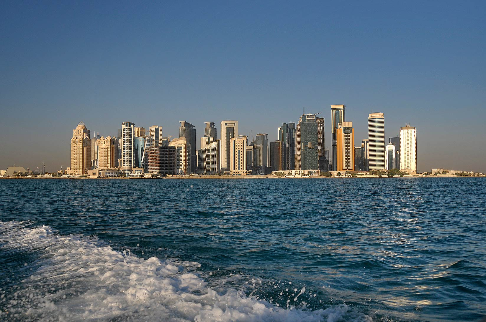 View from a boat of the West Bay skyline in Doha, Qatar.